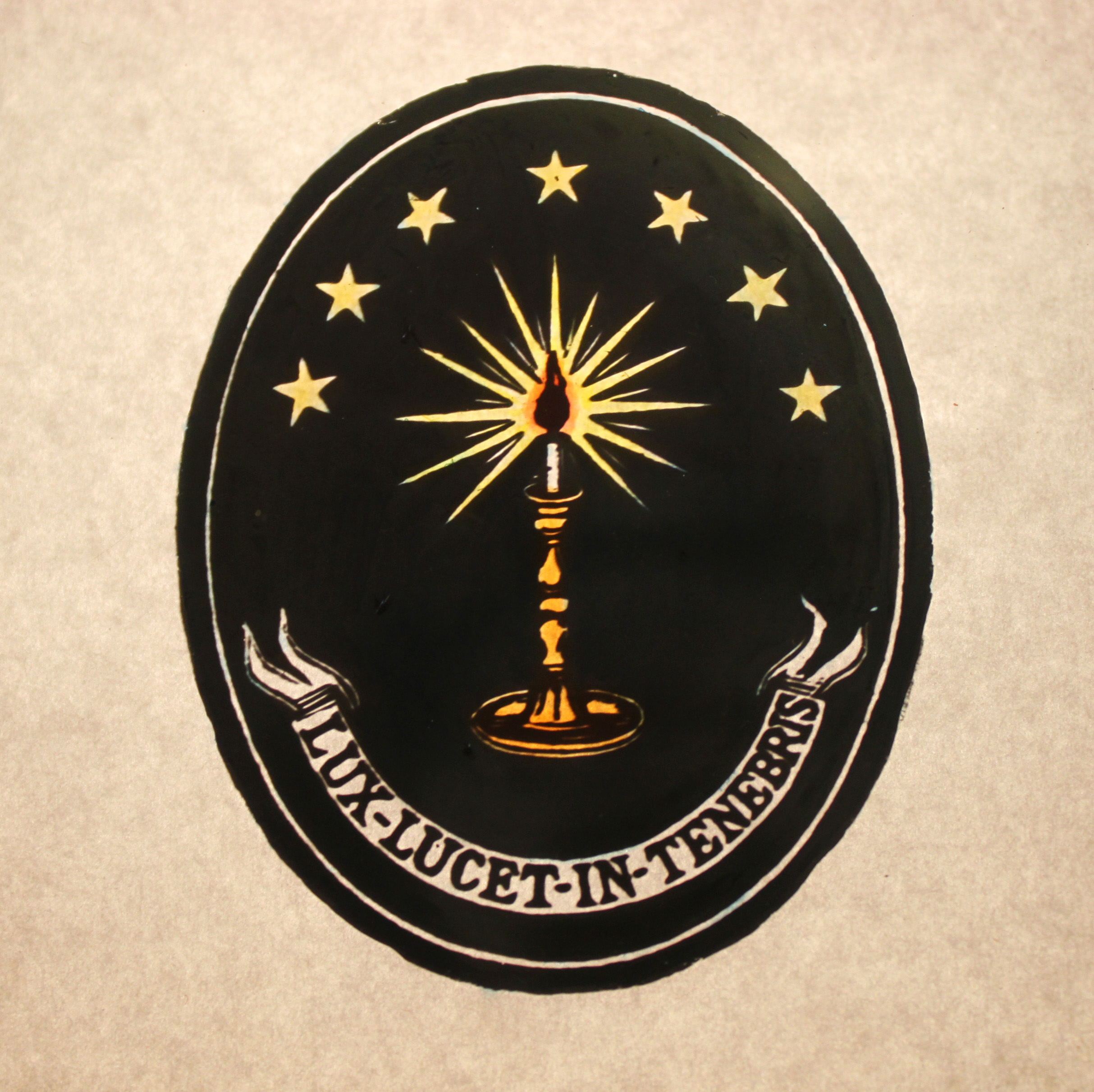 Waldensian Emblem, candle burning in the darkness